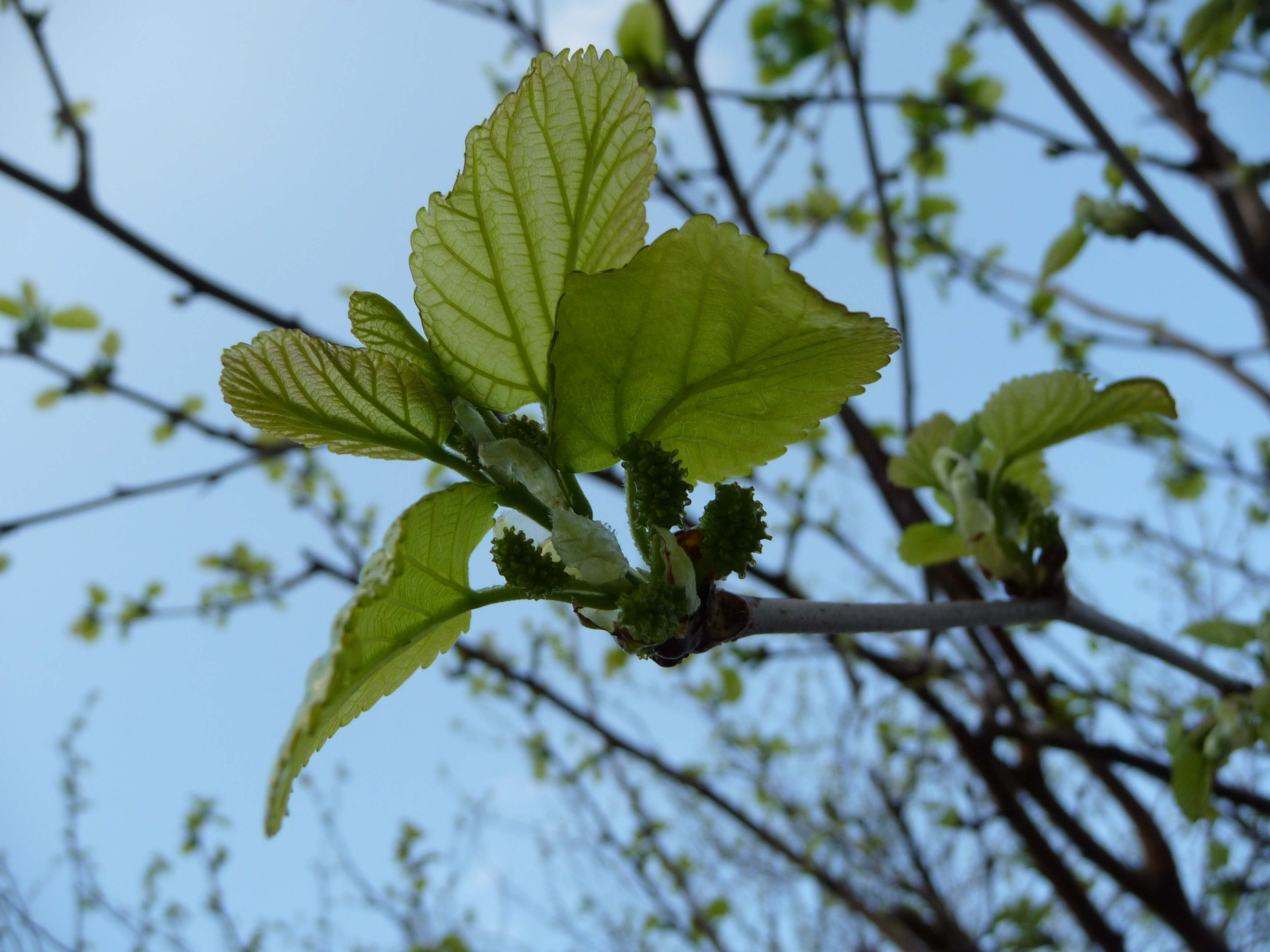 Beit Oren is a kibbutz in northern Israel. It falls under the jurisdiction of Hof HaCarmel Regional Council.